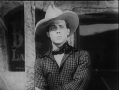 Dennis Moore in The Dawn Rider, a 1935 film by Robert N. Bradbury